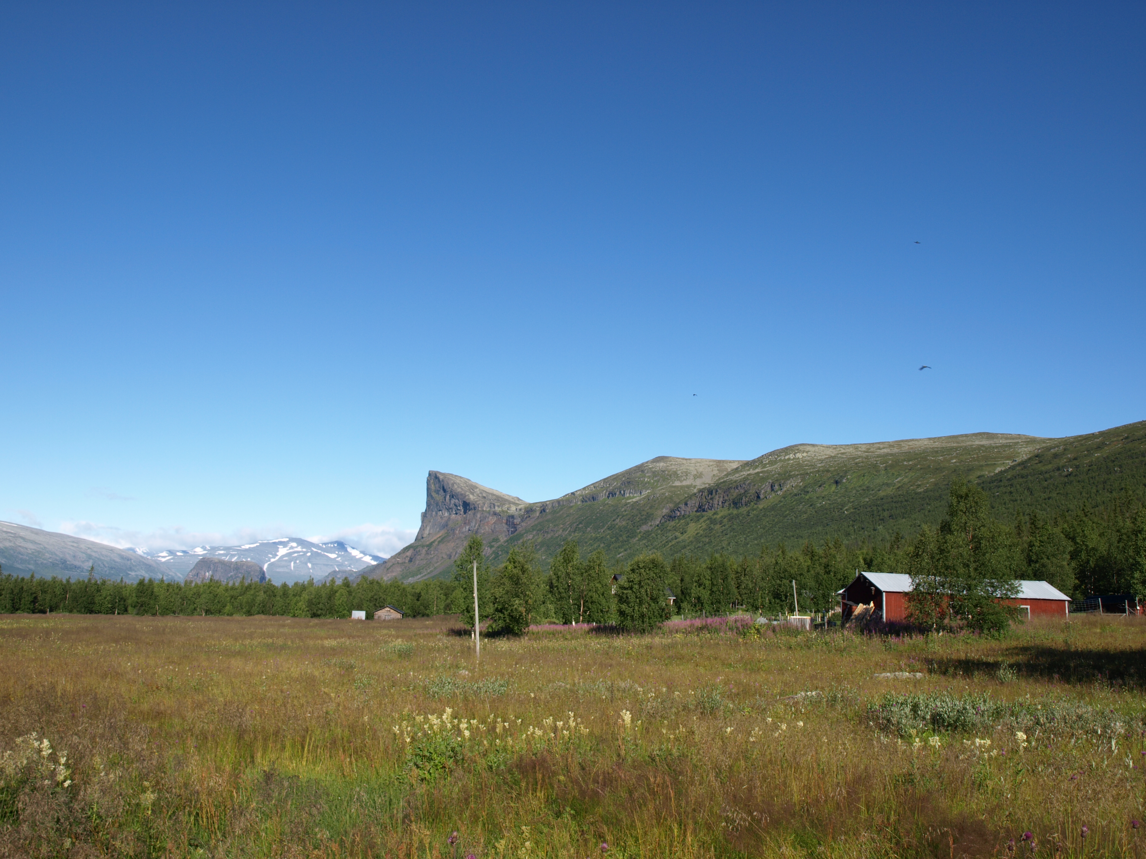 Aktse and the mountain top Skierfe.